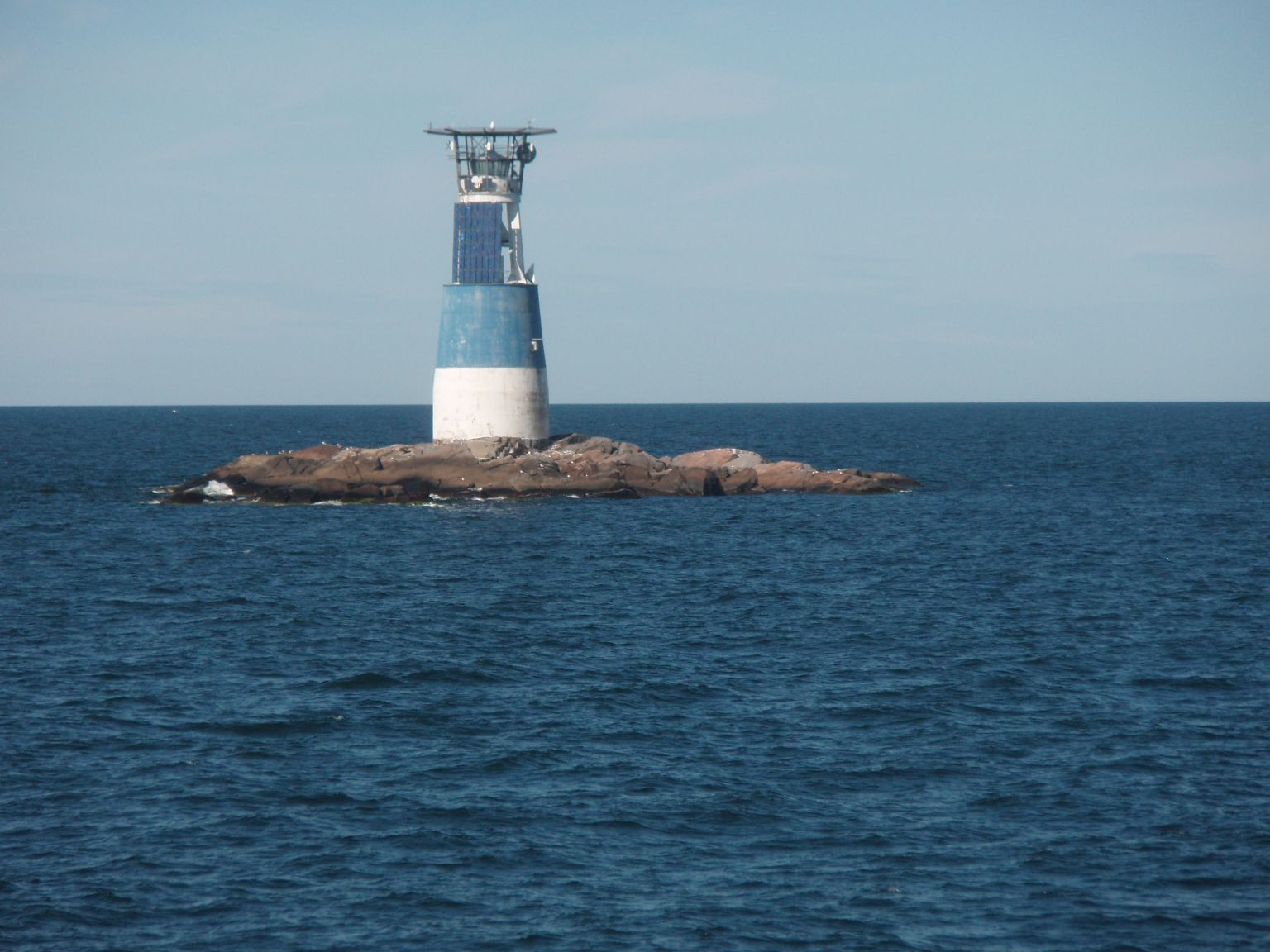 The lighthouse Bogskär, at the southernmost point of Finland penetrating the surface of the Baltic sea, just about equally distant from Hiiumaa, Turku, Stockholm and Gotska sandön.